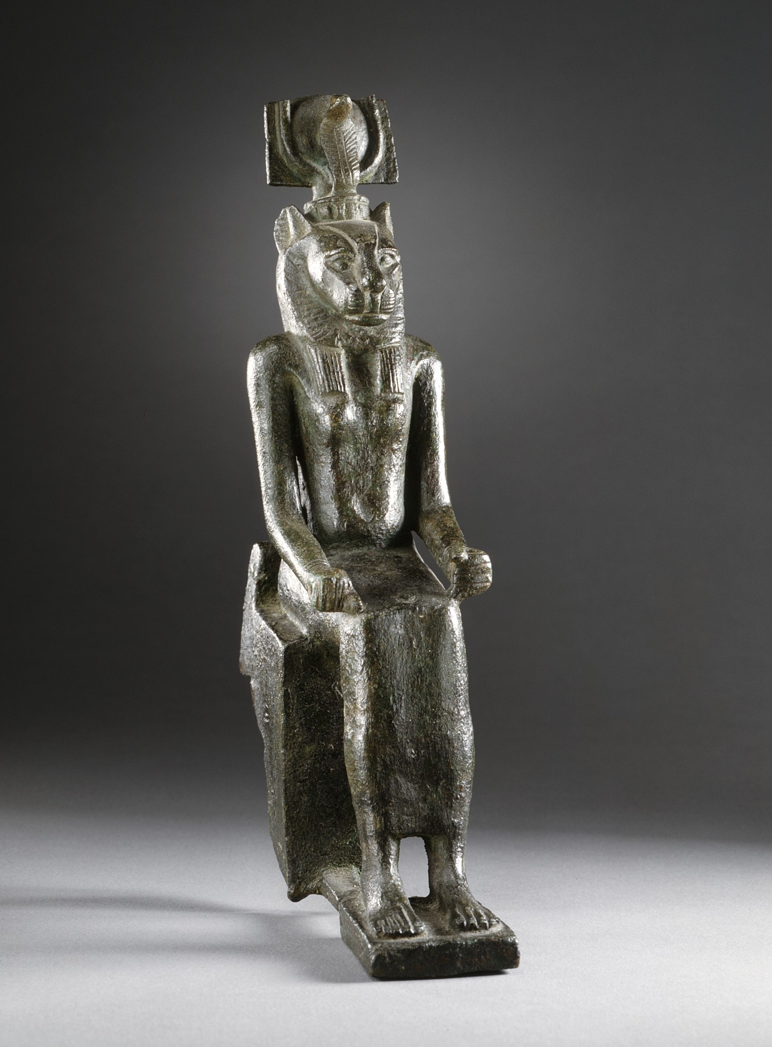 Egypt, 26th Dynasty (664 - 525 BCE) Sculpture Bronze Height: 10 in. (25.4 cm); Width: 2 1/2 in. (6.4 cm) William Randolph Hearst Foundation (50.4.14) Egyptian Art